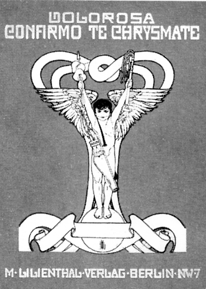 Front cover of Confimo te chrysmate by Maria Eichhorn (Dolorosa)